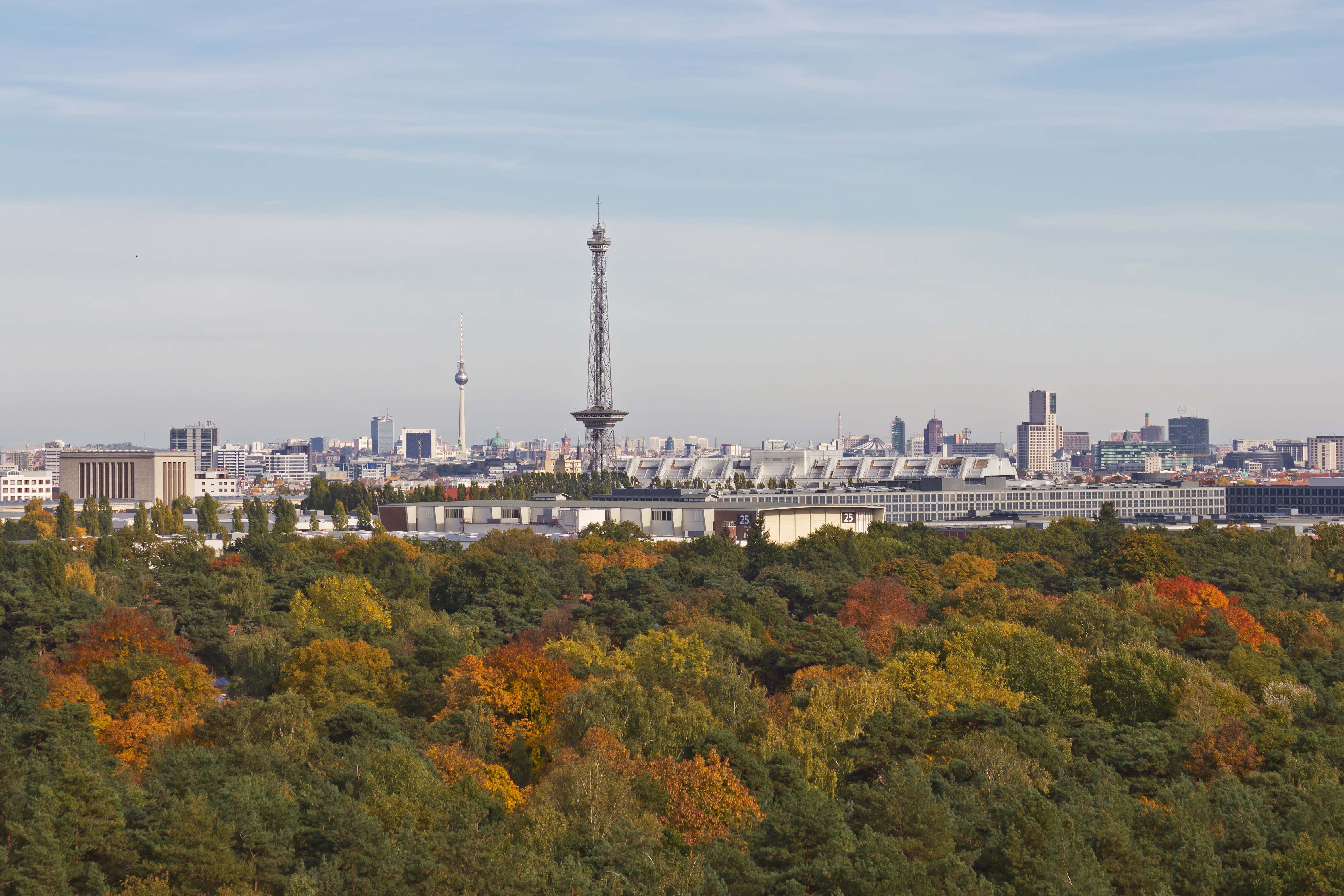 View from Grunewald hill, Berlin, Germany